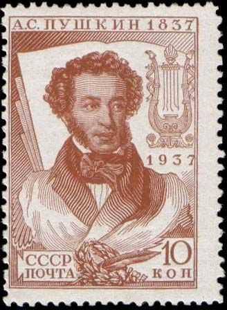 The Soviet Union 1937 CPA 536 stamp (Pushkin, Portrait 10k). Seriesː Death Centenary of Aleksander Sergeyevich Pushkin (1799-1837), Writer and Poet